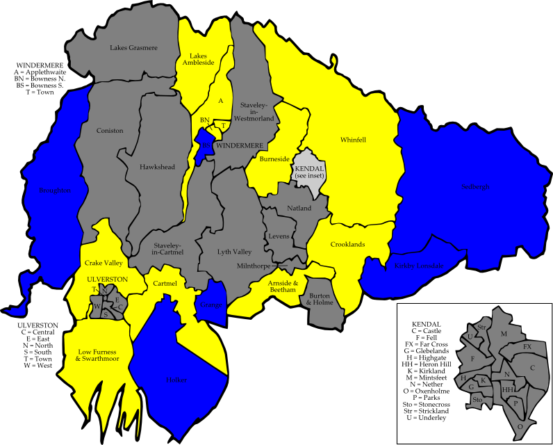 A map of the results of the 2007 South Lakeland Council election. Colour legend by wards won: Liberal Democrats Conservative party Wards in grey were not contested in 2007.